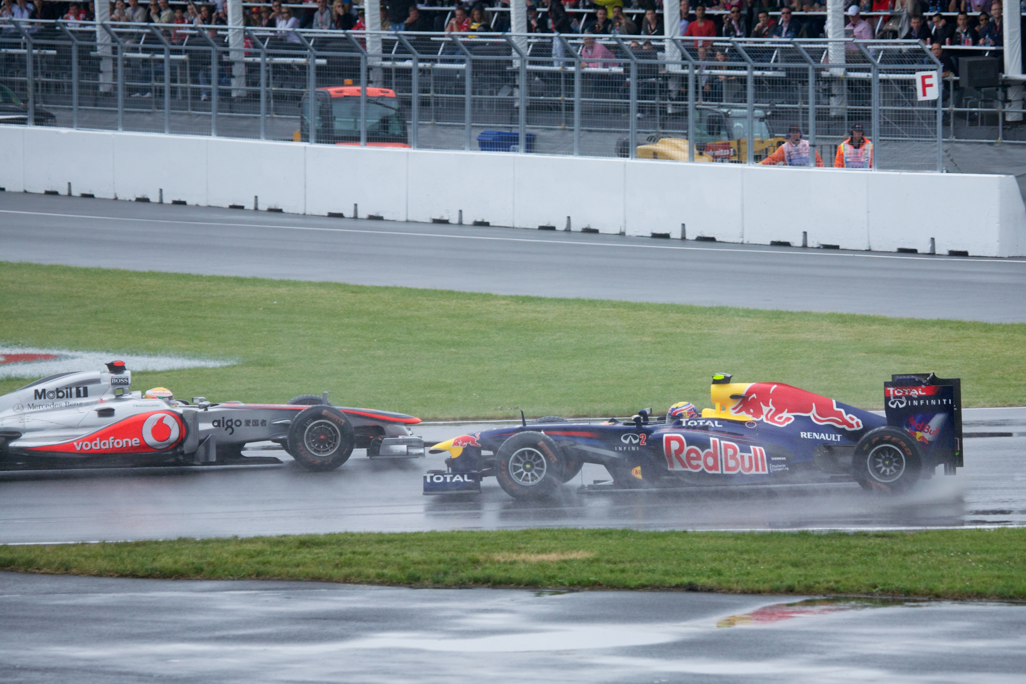 2011 Canadian Grand Prix